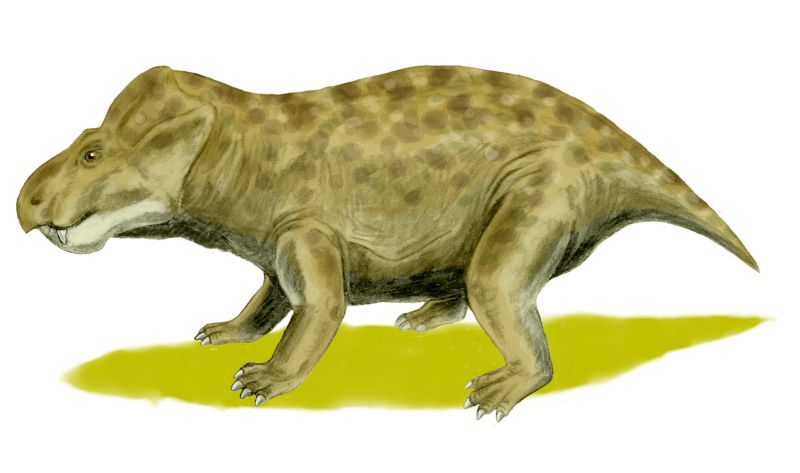 Kannemeyeria , a dycinodont from the Early Triassic of South Africa, pencil drawing, digital coloring